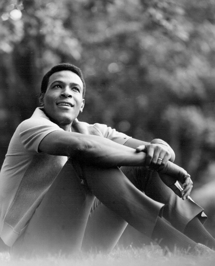 Photo of Marvin Gaye.